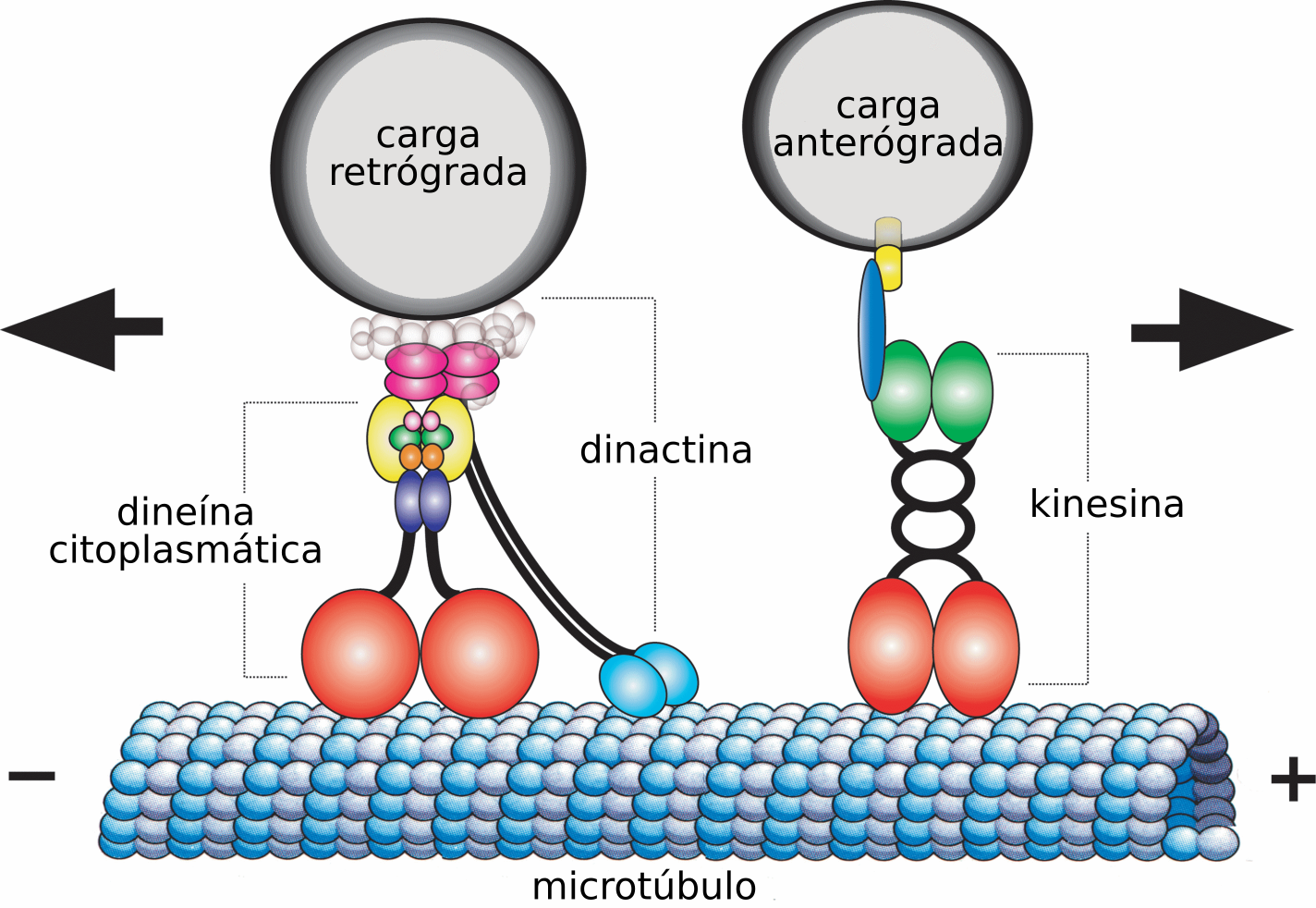 Cytoplasmic axonal transport of dynein and kinesin energy. Schematic diagram of the microtubules of the motor proteins cytoplasmic dynein and kinesin